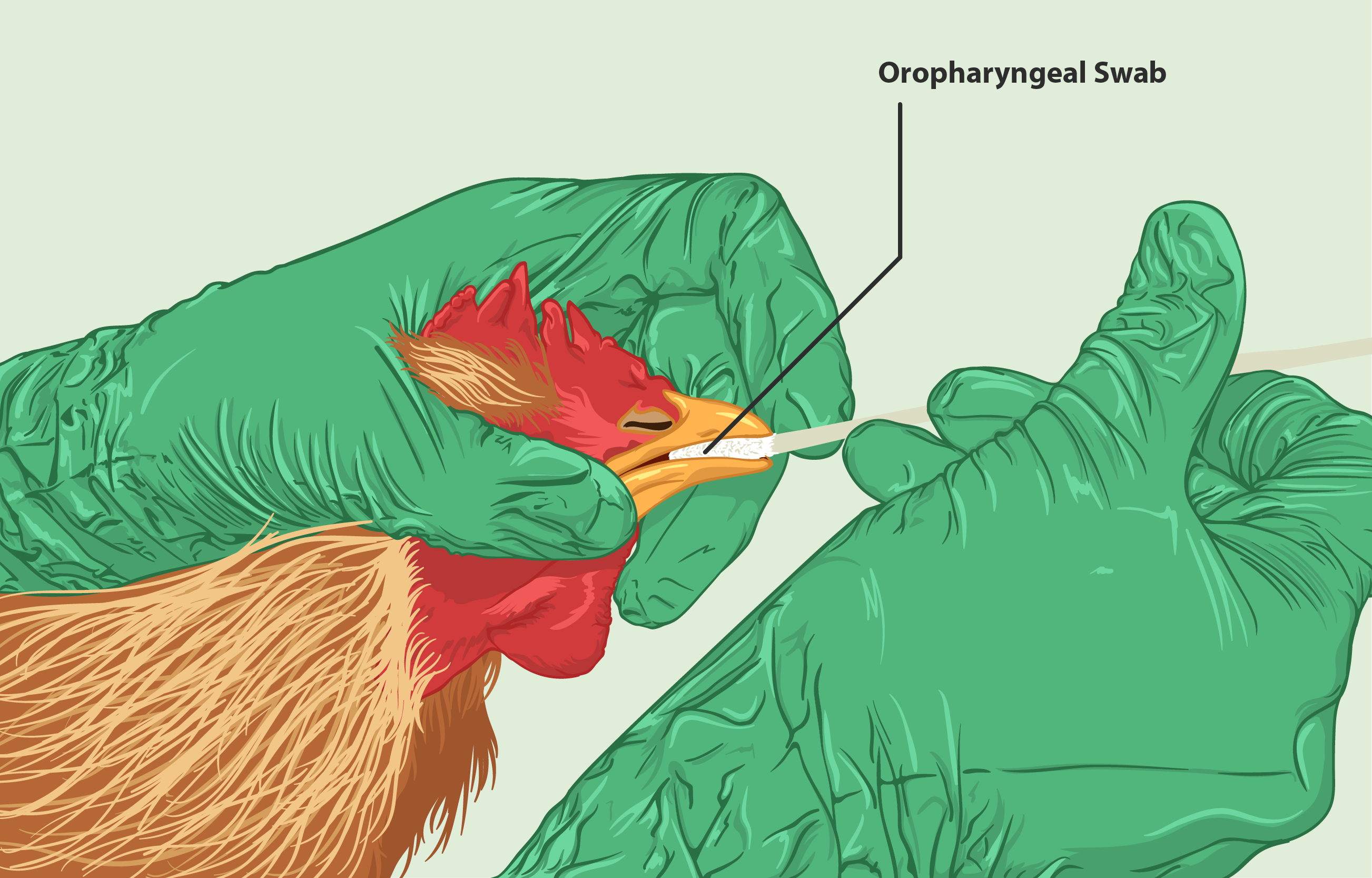 A depiction of a chicken being tested for Bird Flu, also called Avian Influenza, using an oropharyngeal swab.